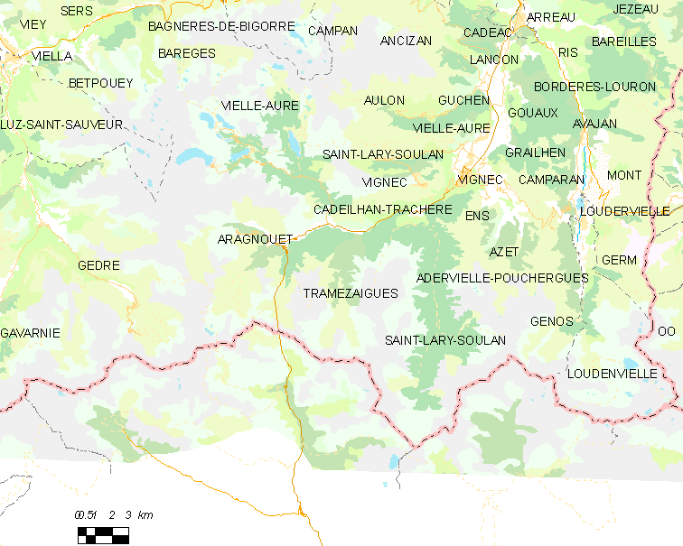 Map of French municipality